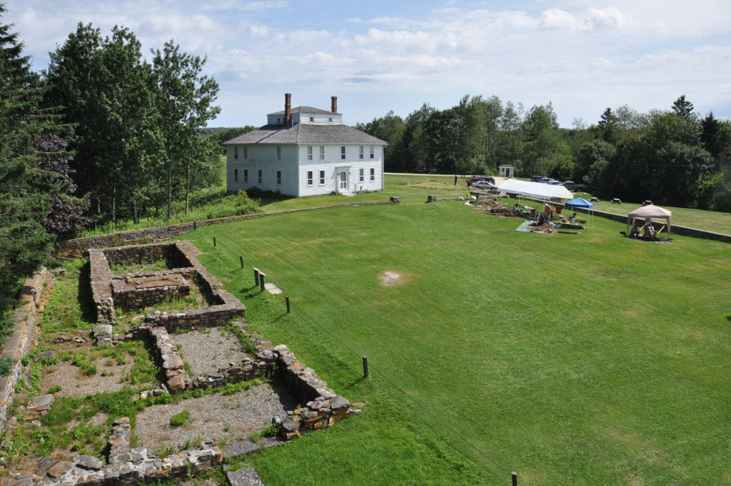 Fort William Henry, Pemaquid, Maine. View of fort outline and Fort House. Archeology dig is in progress on the grounds.